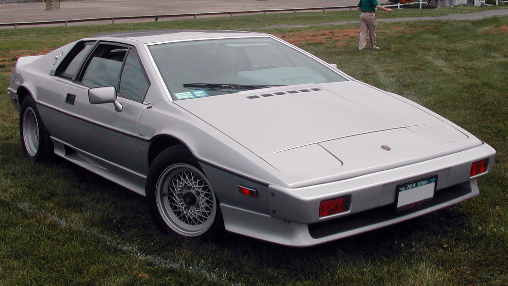 A US market Lotus Turbo Esprit HC. Modified version of File:Turbo Esprit.JPG, cropped, levels adjusted, and plates anonymized.